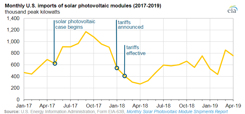 U.S. solar PV module imports, measured in the modules' capacity in kilowatts, increased in mid-2017, before tariffs were announced, and then fell to less than 300,000 kilowatts in the months following the tariff’s effective date in February 2018. August 13, 2019